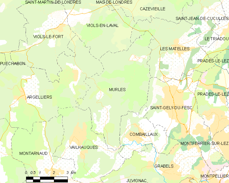 Map commune FR insee code 34177.png - Murles